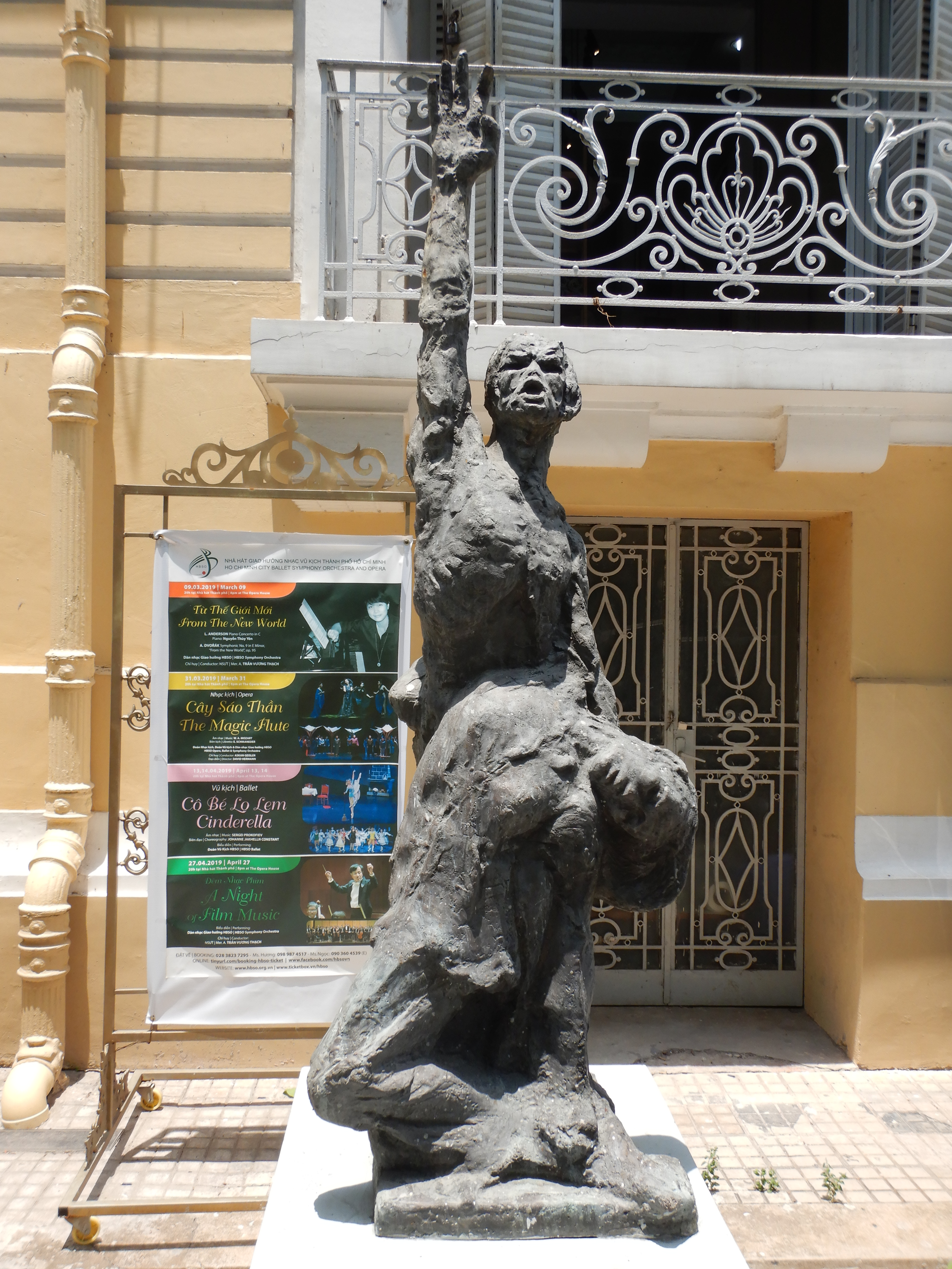 Bronze statue "The people of Phu Loi oppose the enemy" in Ho Chi Minh City Museum of Fine Arts. It was made by Diệp Minh Châu in 1959. Dimensions: 64 × 65 × 193 cm.